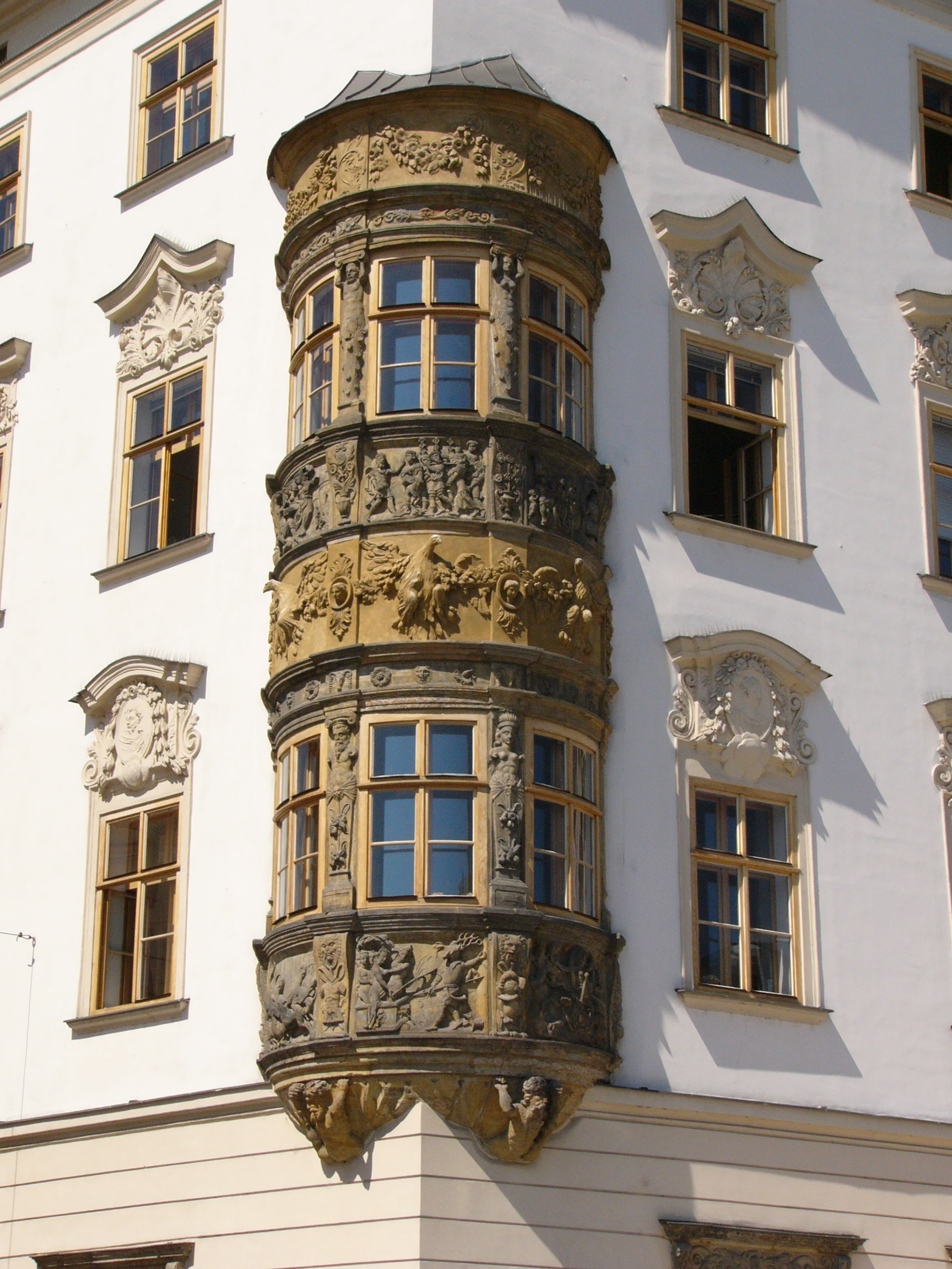 Rainnesance bay window of Hauenschild palace in Olomouc (Czech Republic).